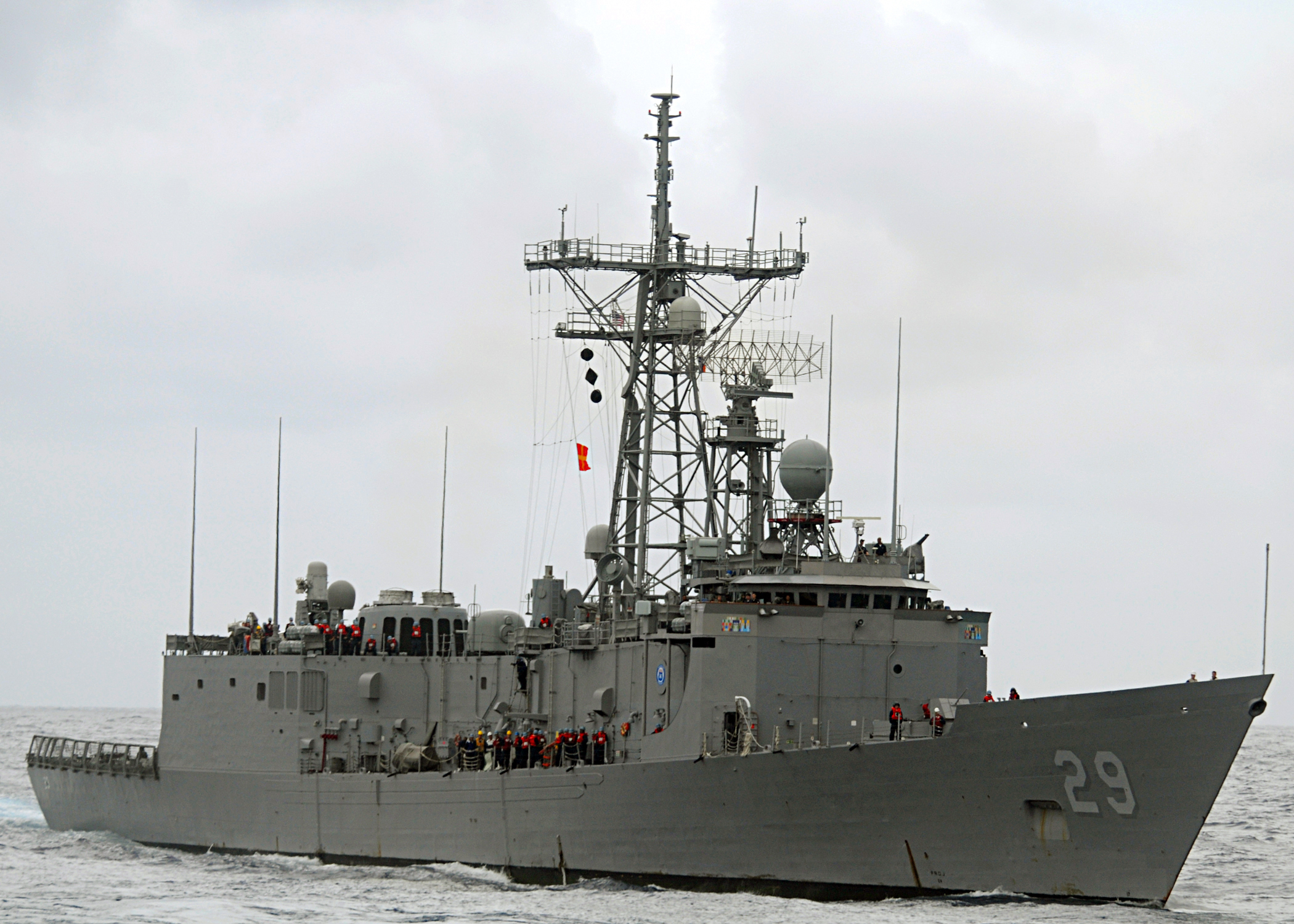 ATLANTIC OCEAN (July 13, 2008) The guided-missile frigate USS Stephen W. Groves (FFG 29) steams through the Atlantic Ocean during the Iwo Jima Expeditionary Strike Group composite unit training exercise (COMPTUEX). COMPTUEX provides a realistic training environment to ensure the strike group is capable and ready for its upcoming scheduled deployment. U.S. Navy photo by Mass Communication Specialist 2nd Class Jason R. Zalasky (Released)